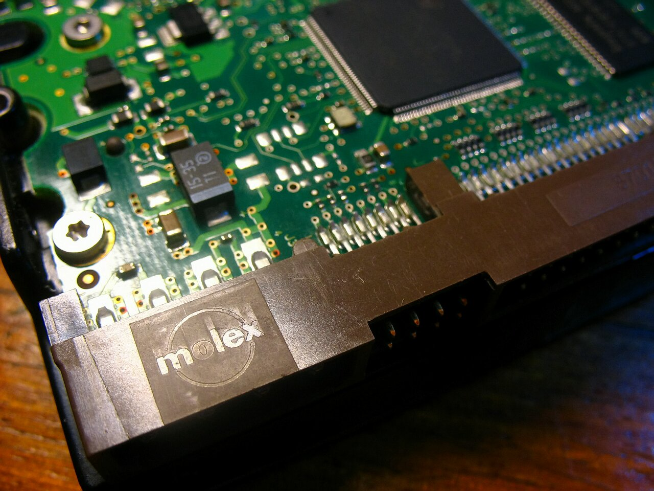 Molex at a Seagate Hard Driver